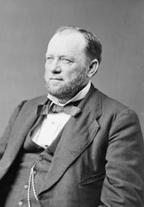 C. C. B. Walker, New York Congressman